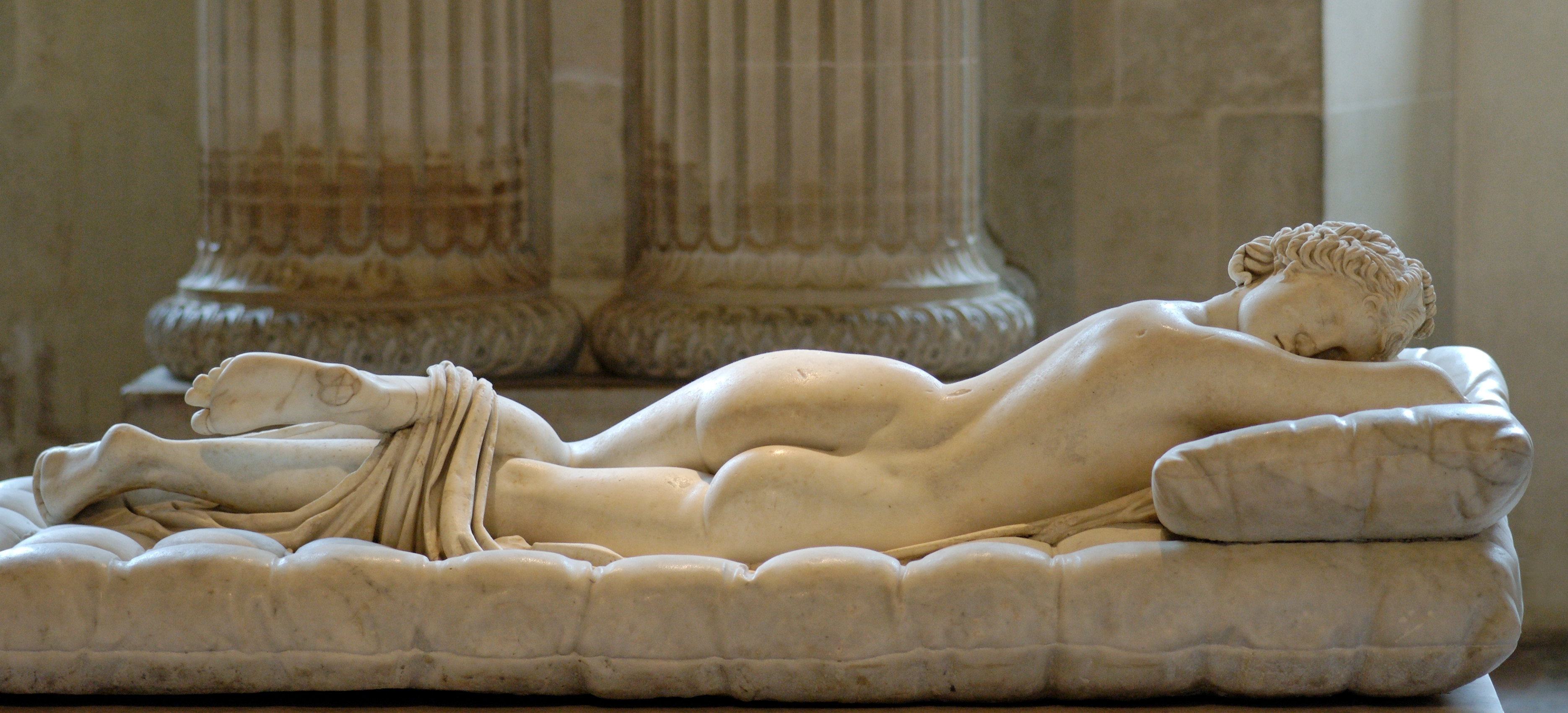 Sleeping Hermaphroditus. Hermaphroditus: Greek marble, Roman copy of the 2nd century CE after a Hellenistic original of the 2nd century BC, restored in 1619 by David Larique; mattress: Carrara marble, made by Gianlorenzo Bernini in 1619 on Cardinal Borghese's request.